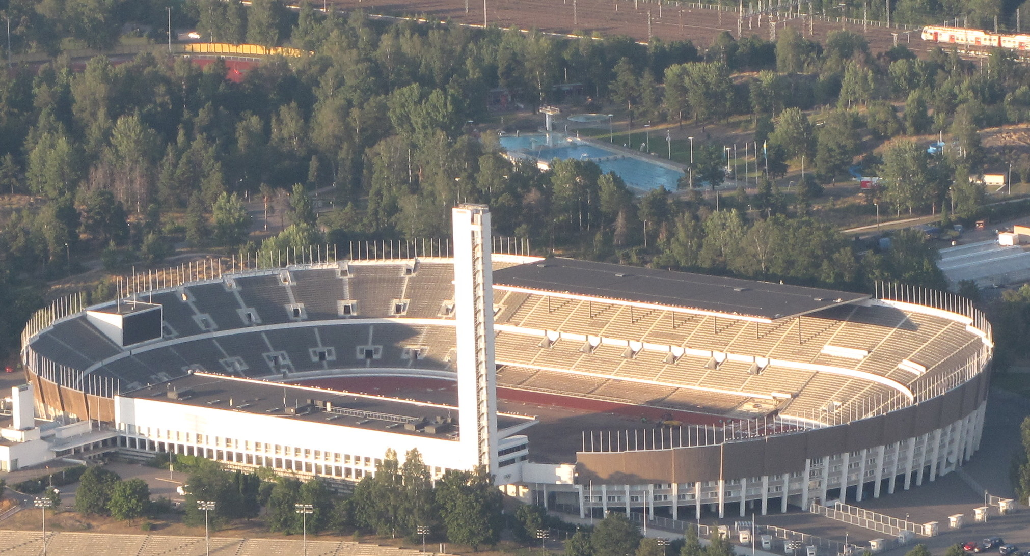 Helsinki Olympic Stadium photographed from a hot air balloon.